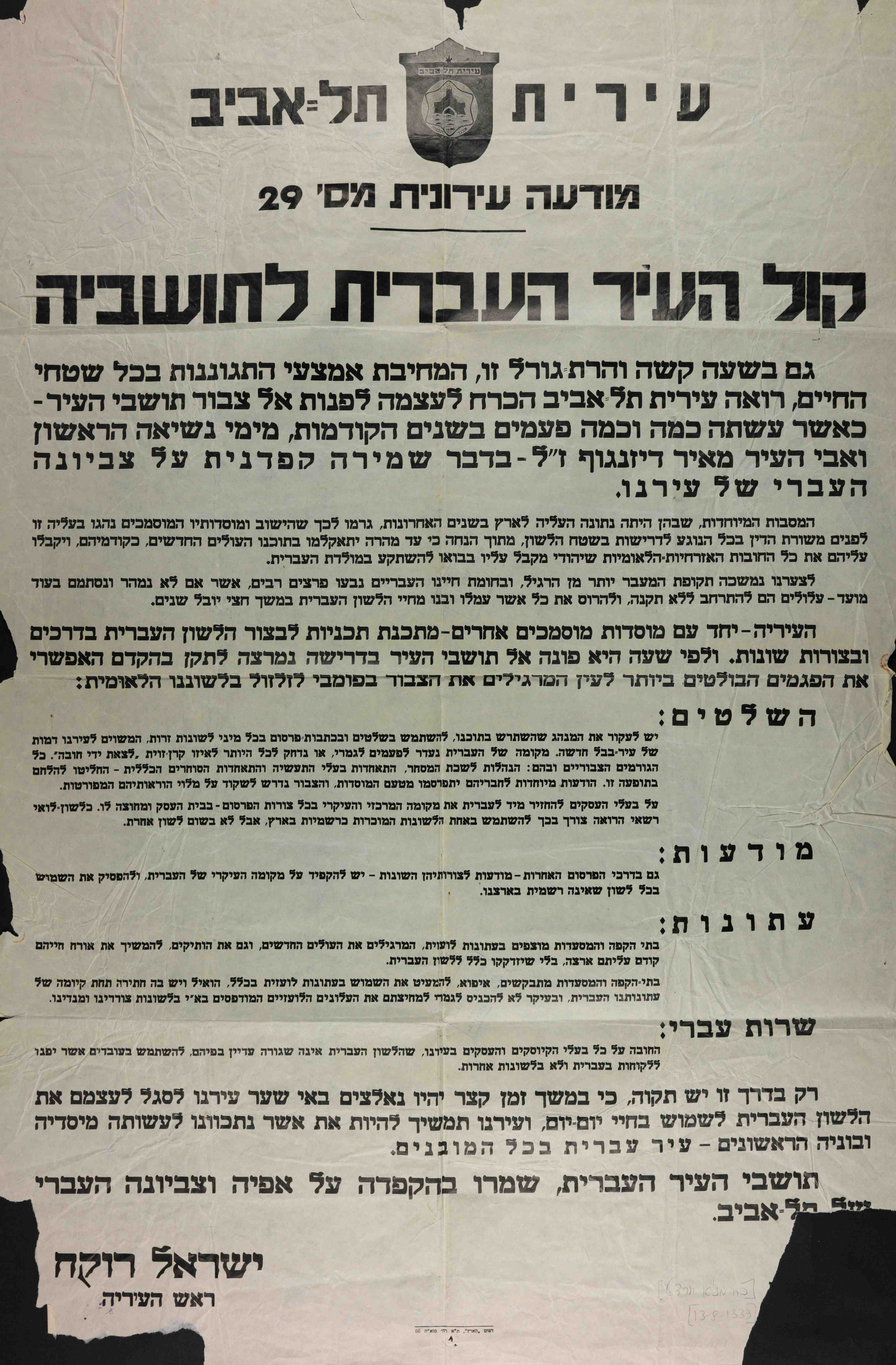 Tel-Aviv character